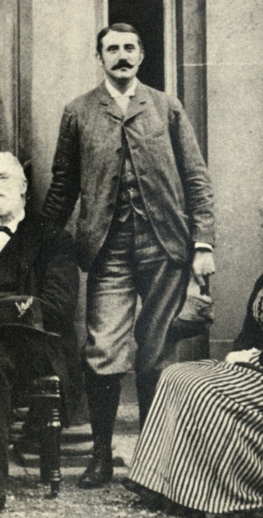 The first president of Sevilla Foot-Ball Club